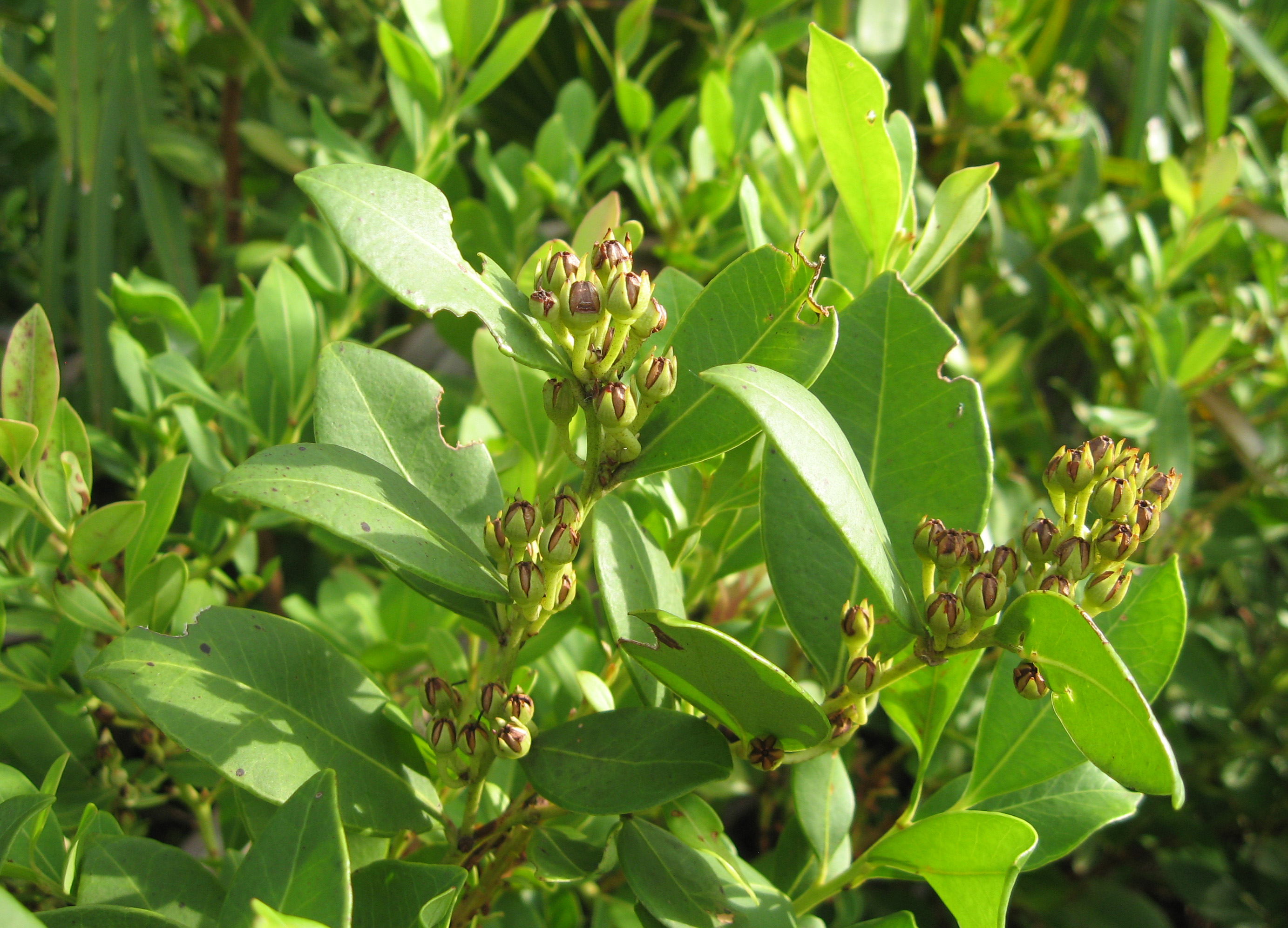 Lyonia lucida, boardwalk over a marshy area at St. Joseph Peninsula State Park, Gulf County, Florida.